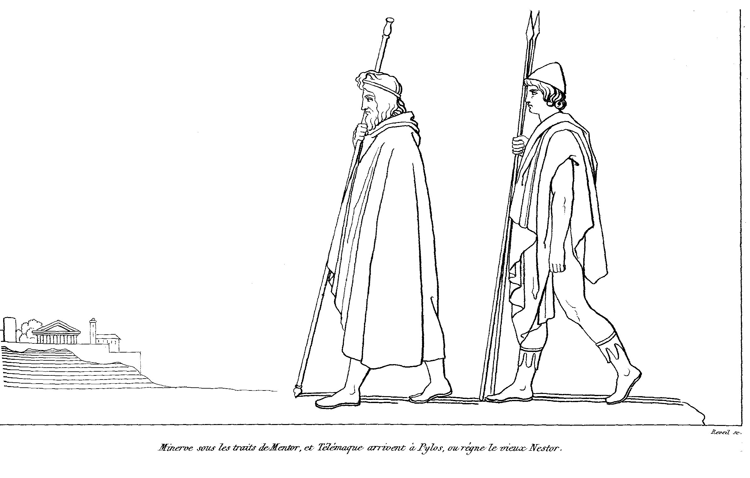 Illustrations of Odyssey